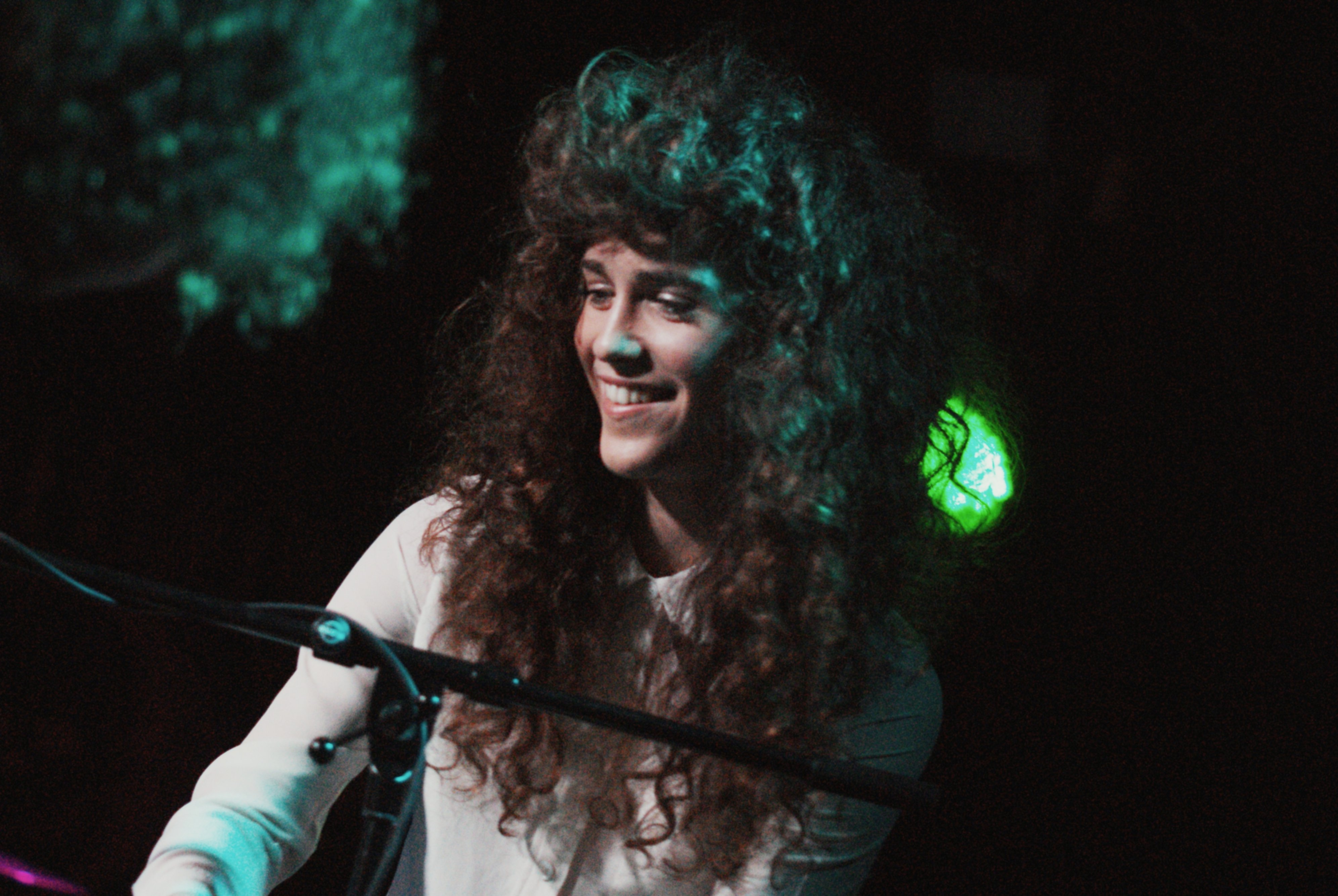 Rae Morris performing at the Night and Day Cafe, Manchester, on Thursday the 1st of March 2012.